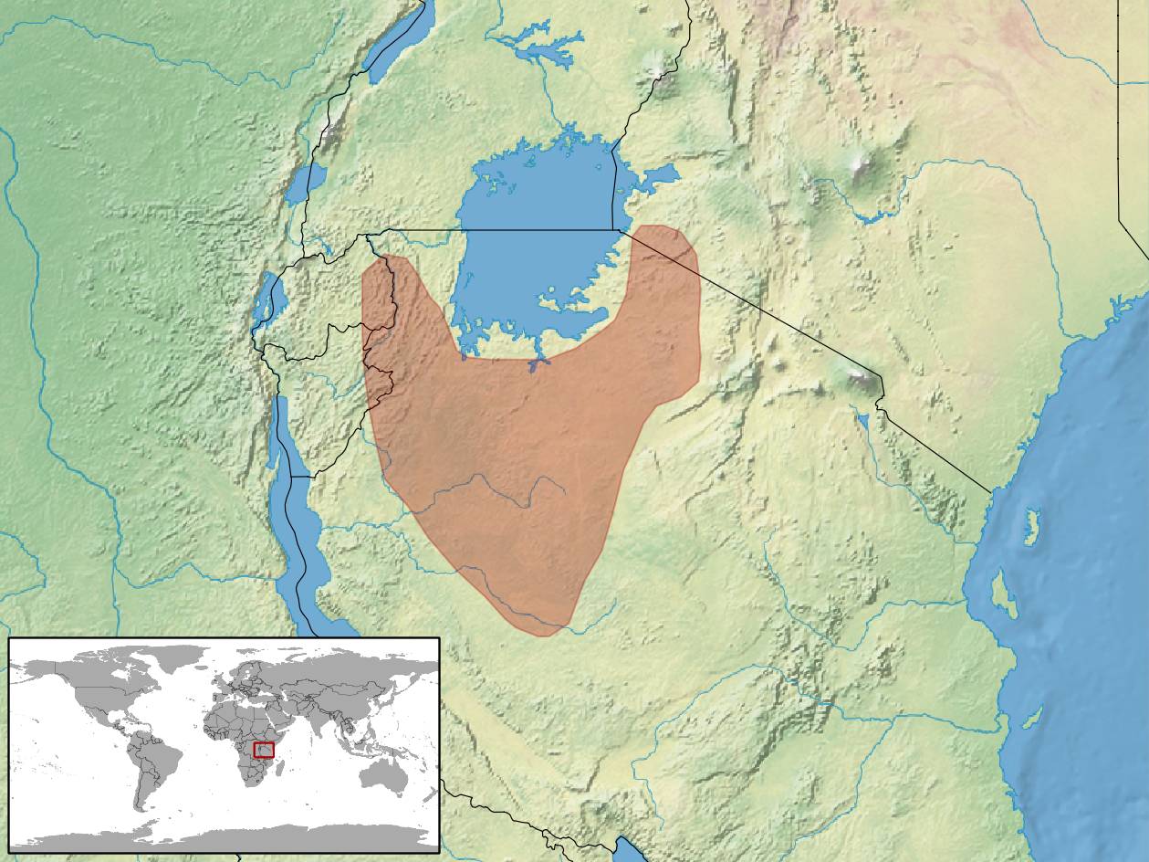 geographic distribution of Agama mwanzae (Native: Burundi; Kenya; Rwanda; Tanzania, United Republic of)